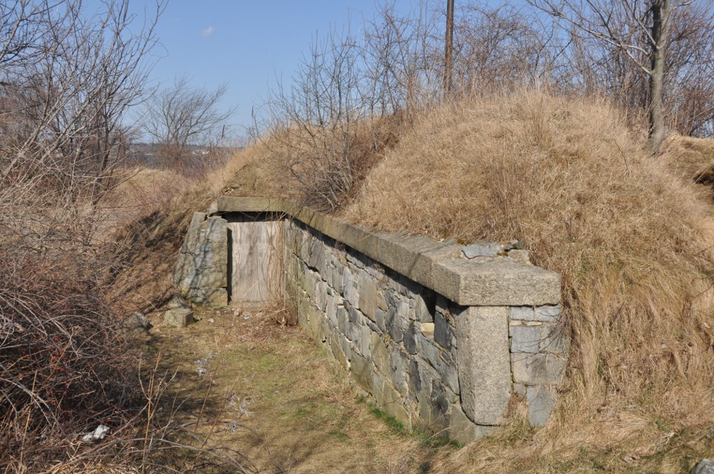 a 19th century bunker at Fort Pickering on Winter Island in Salem, Massachusetts.